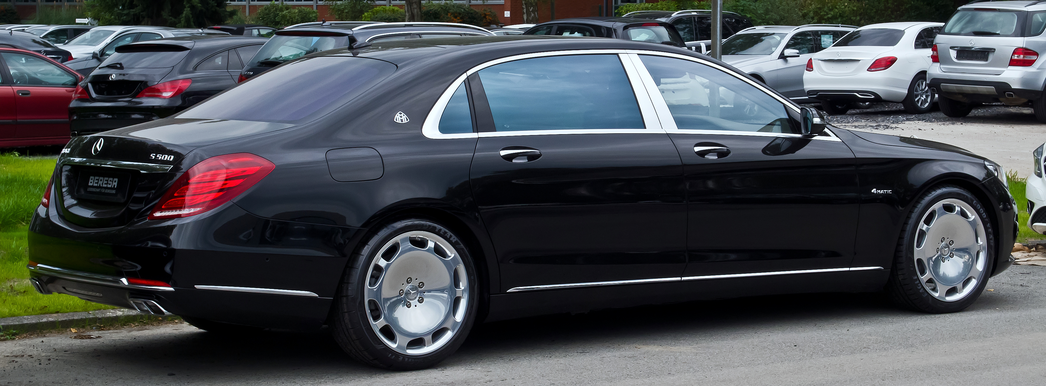 Mercedes-Maybach S 500 4MATIC (X 222)